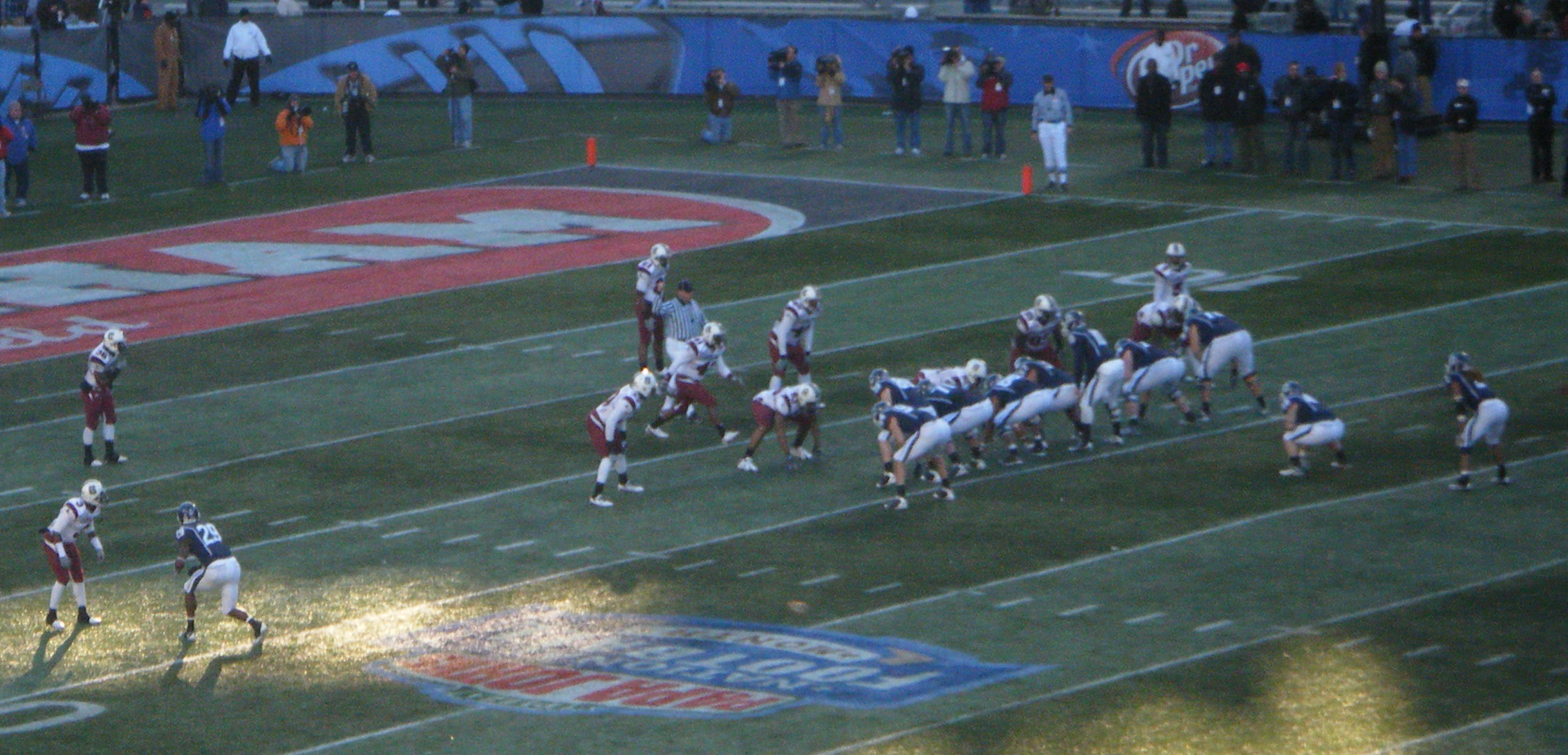 Connecticut on offense in the fourth quarter of the en:2010 Bowl. The Huskies are in an unbalanced-I formation, with wide receiver Marcus Easley at the far left and running back Andre Dixon in back.